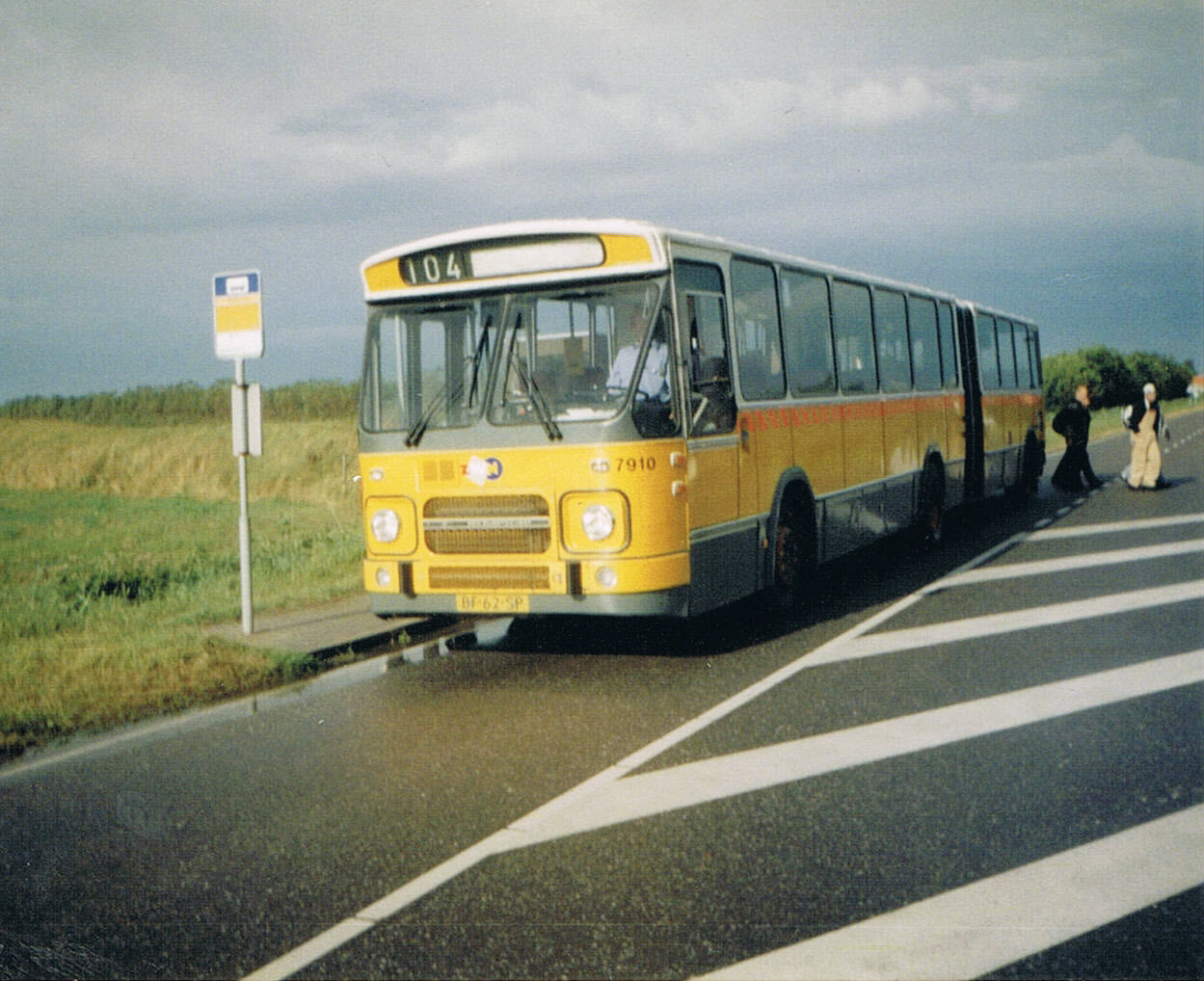 Bus line 104 at the bus stop De Klepperstee in Ouddorp